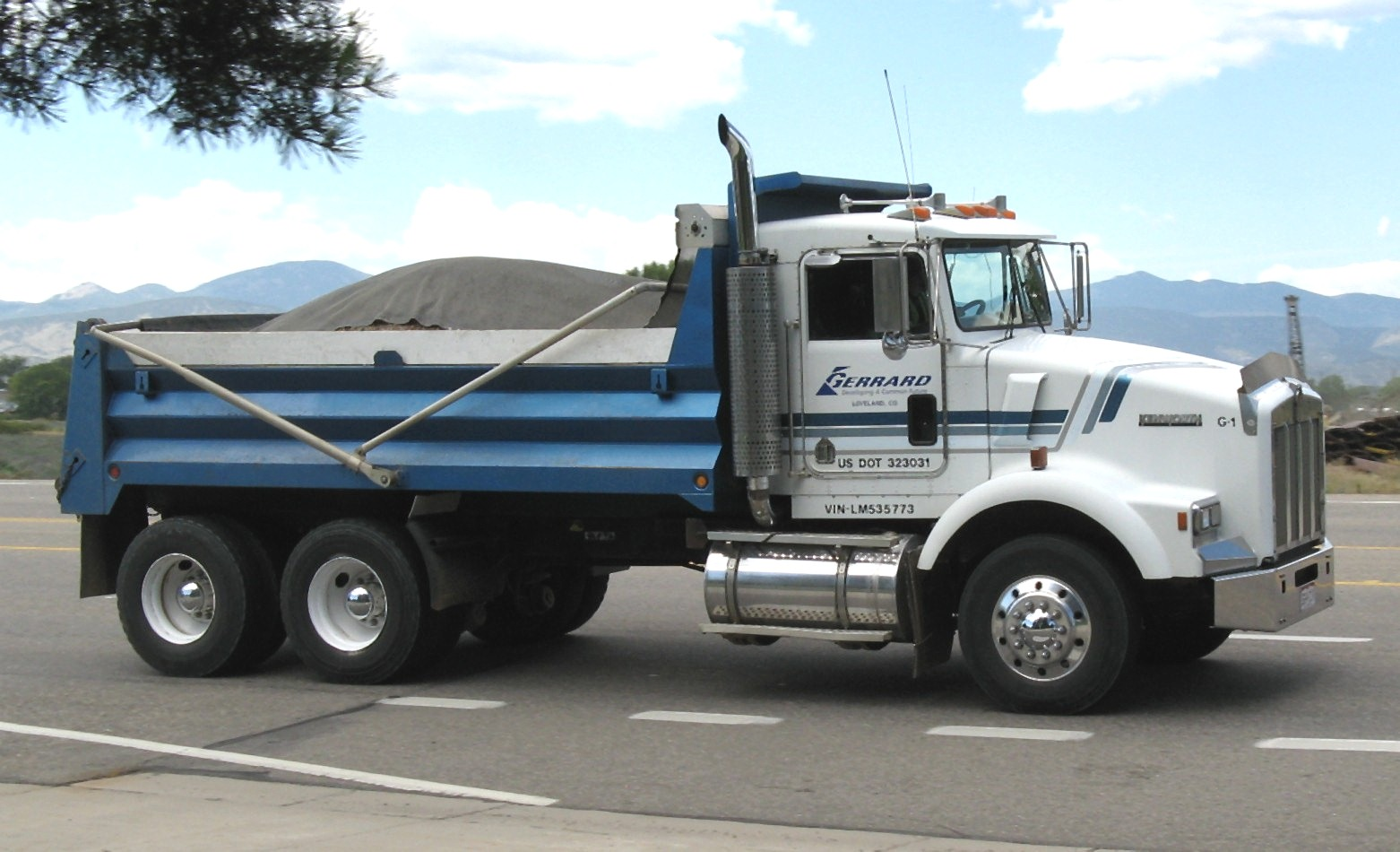 Kenworth T800 dump truck, Loveland, Colorado / 2008